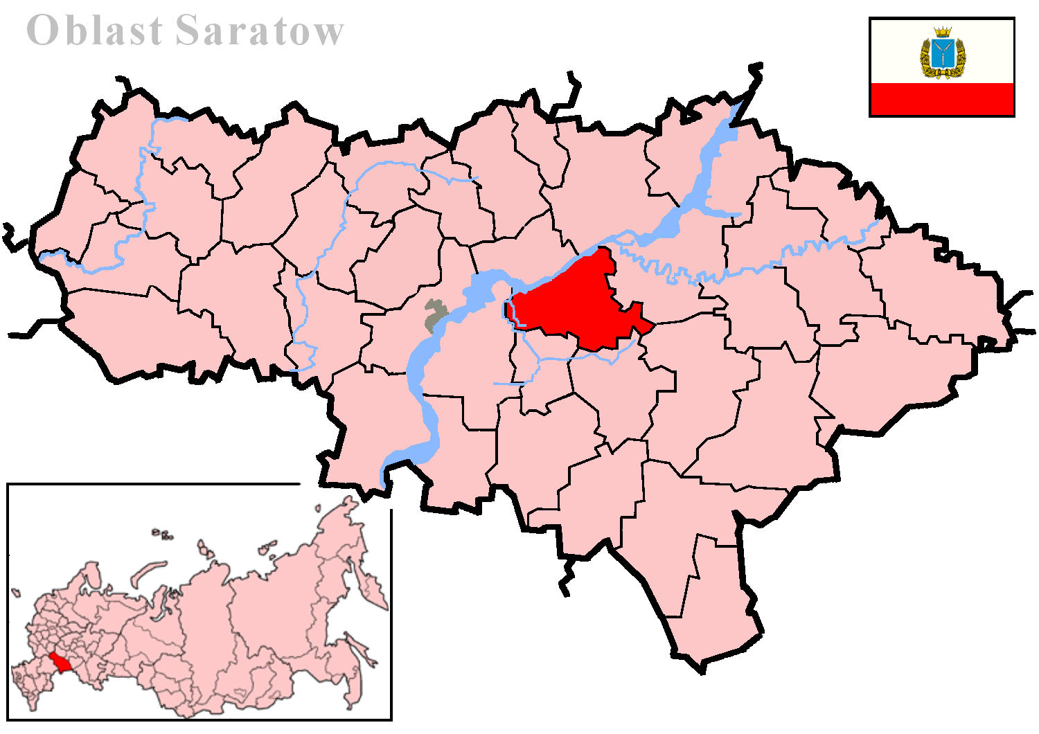 Location of Marksovsky District in the Saratov Oblast